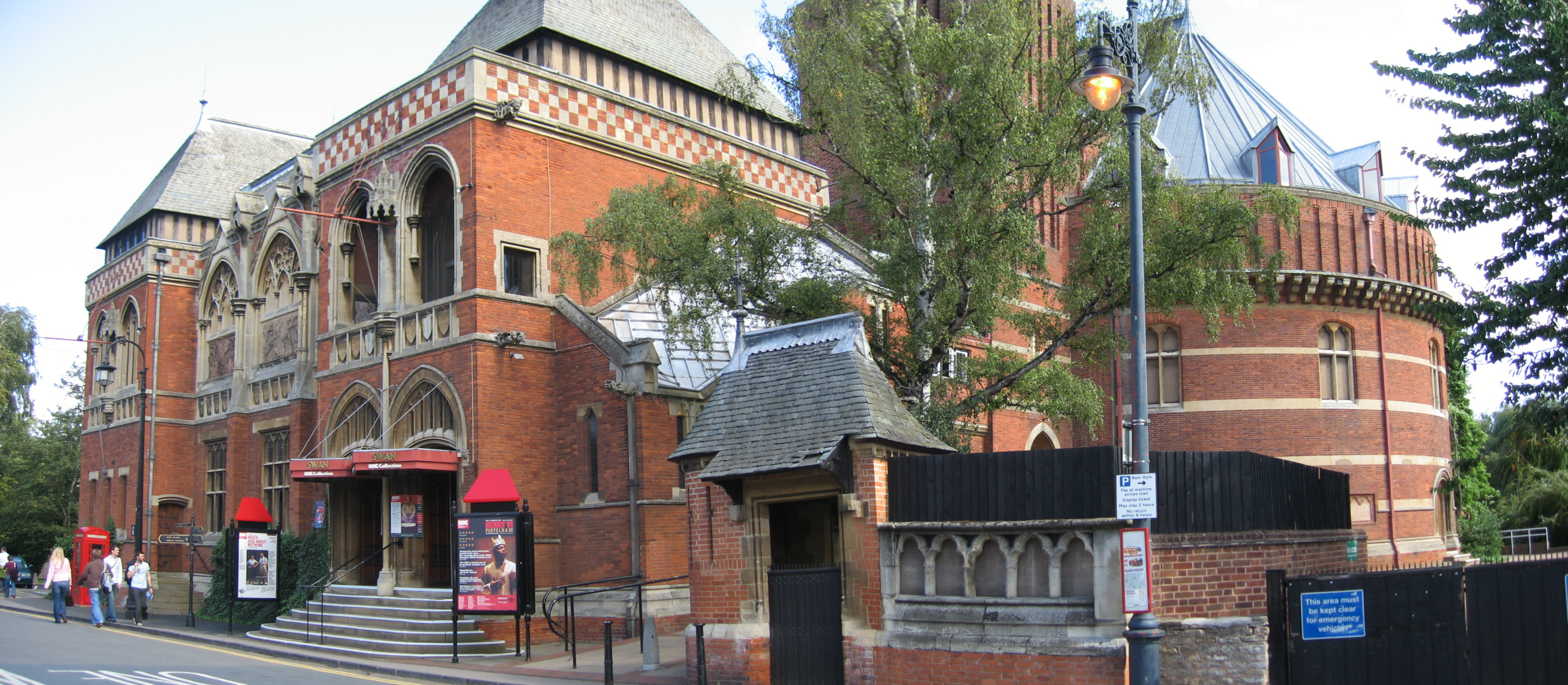 Swan Theatre, Stratfor-upon-Avon, Warwickshire, England. (photostitch).